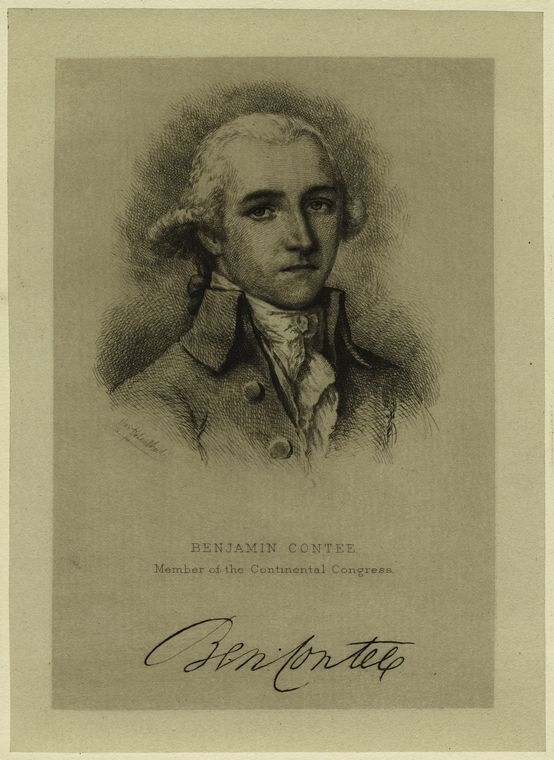 Benjamin Contee, US Representative from Maryland